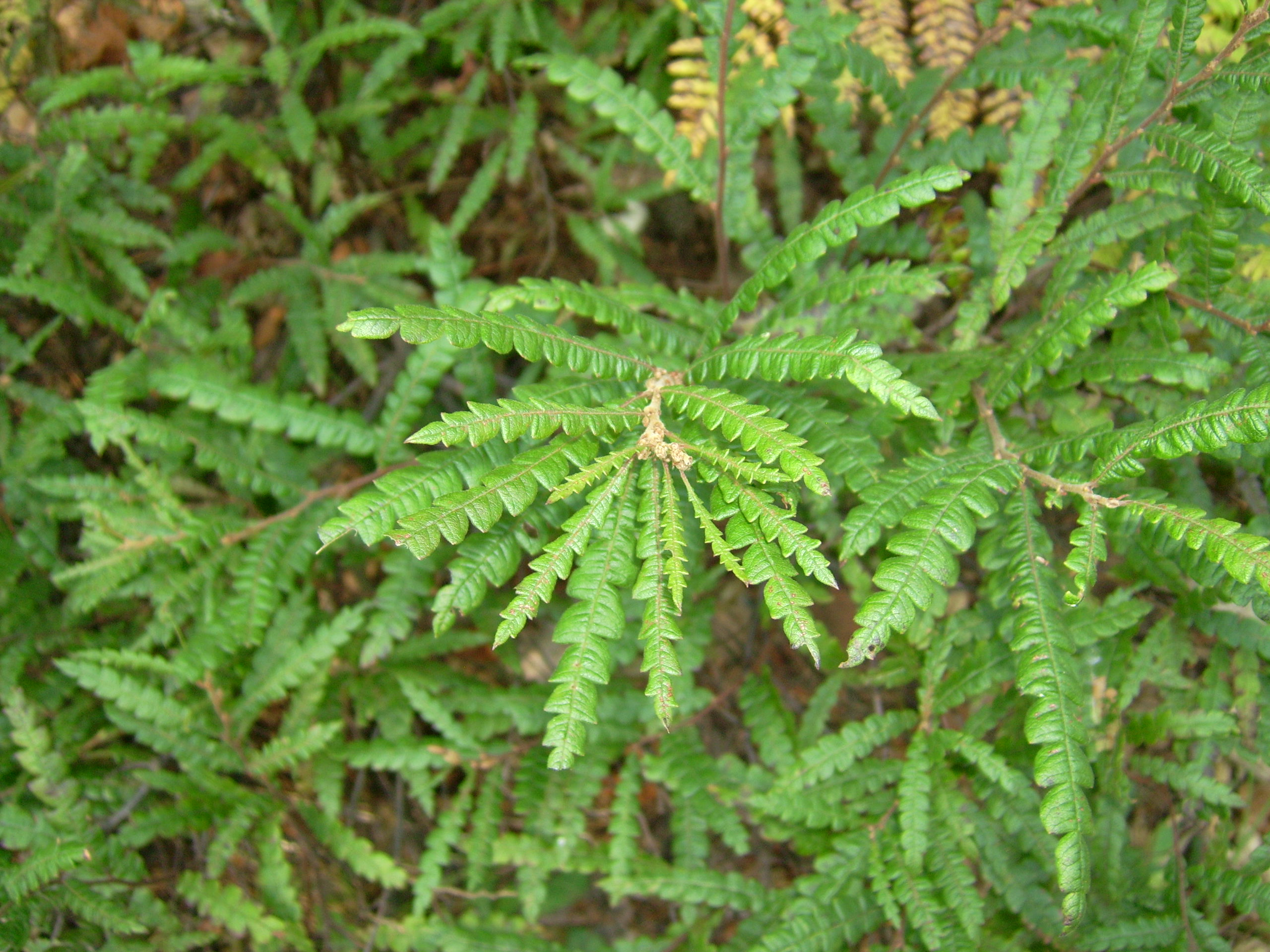 Sweet-fern (Comptonia peregrina), Twp. of Huron Shores, Ontario